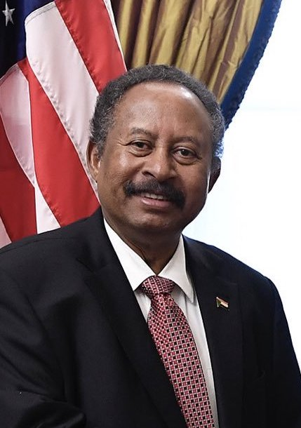 From the Twitter status: "Met with Sudanese Prime Minister Abdalla Hamdok @SudanPMHamdok today. We welcome the new government’s stated commitment to respecting human rights, fighting corruption, and reforming Sudan’s economy."